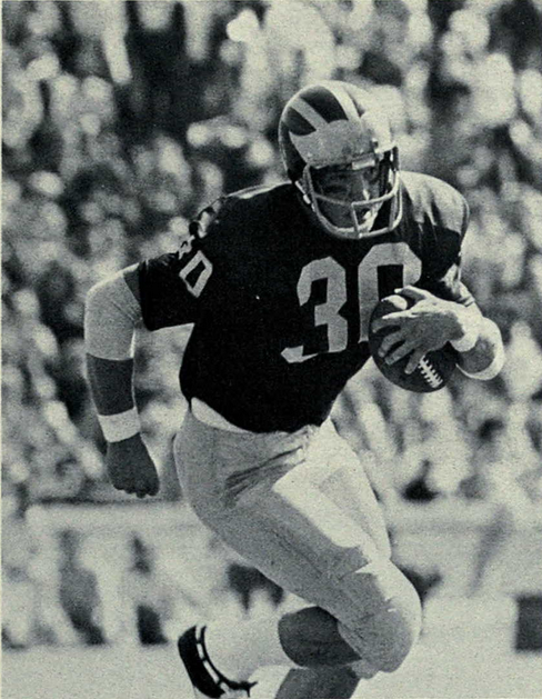 Photograph of Paul Staroba